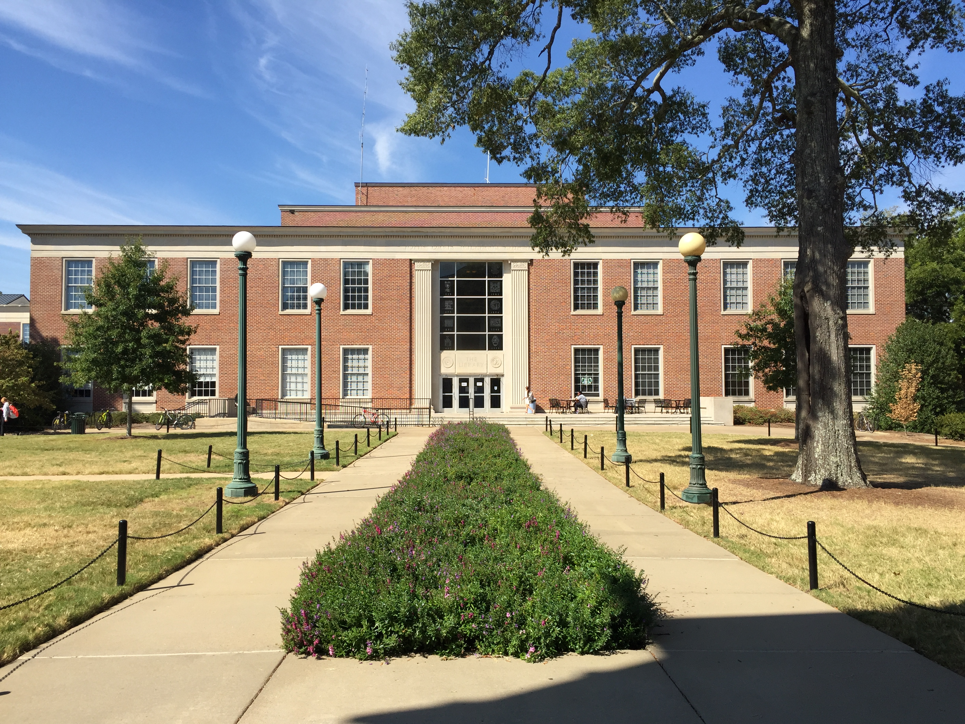 University of Mississippi's Library 2016